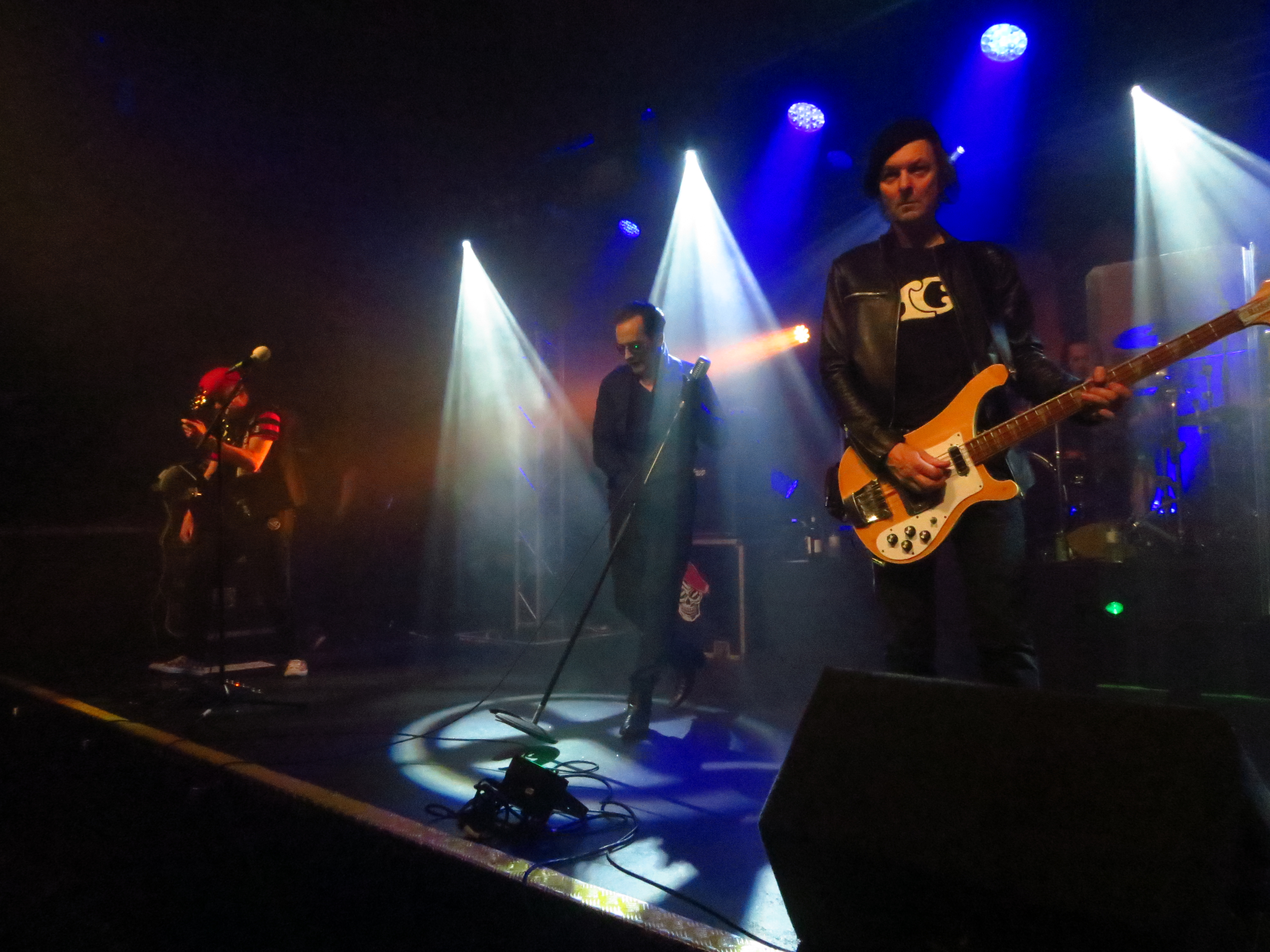 The Damned live in 2018